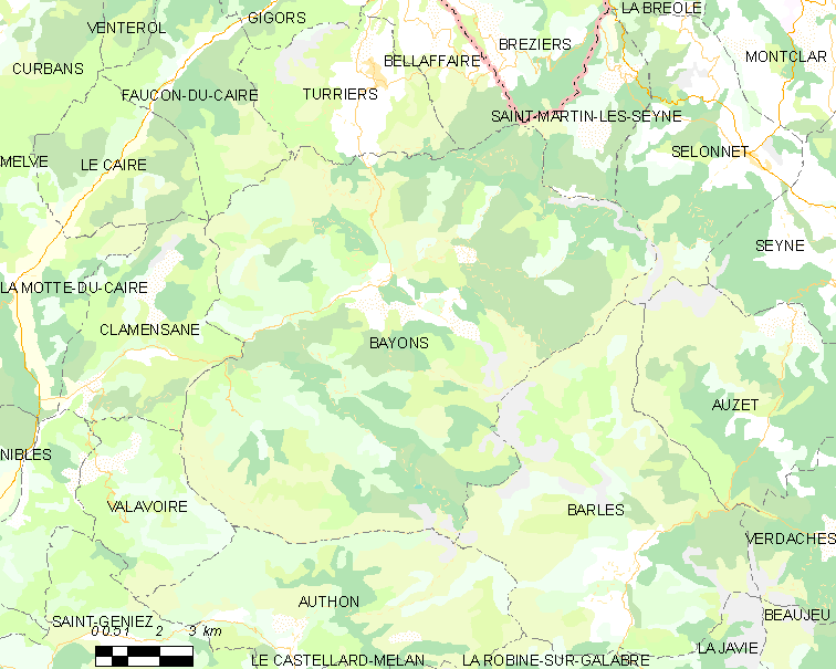 Map commune FR insee code 04023.png Légende